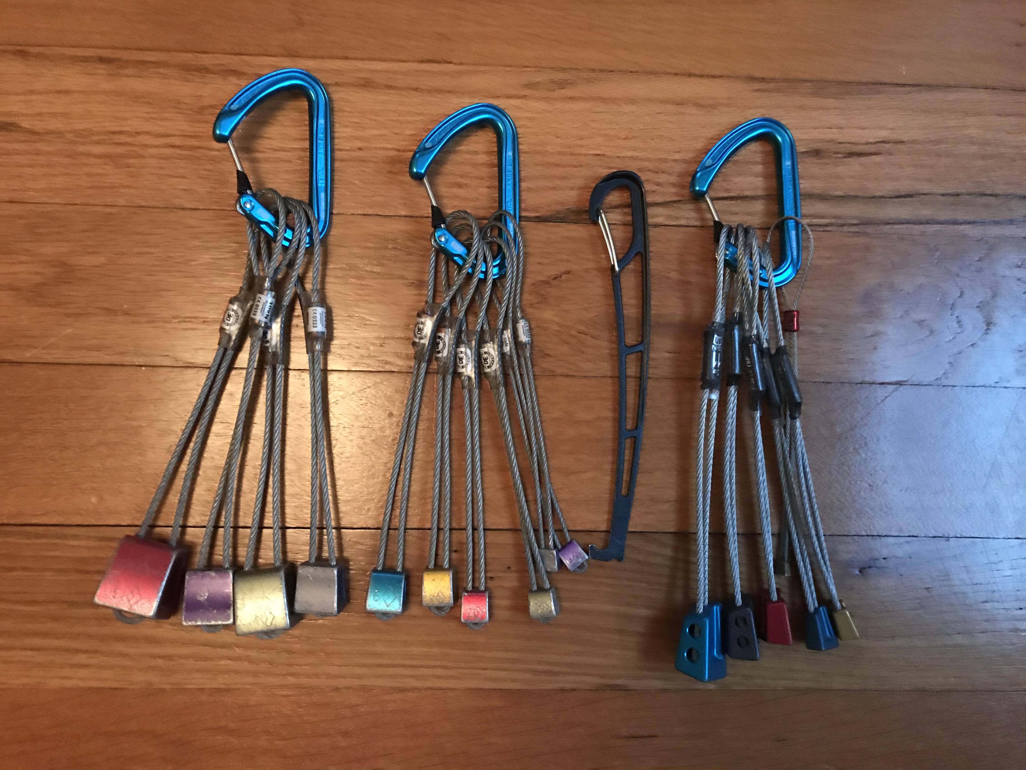 Petzl Ange L